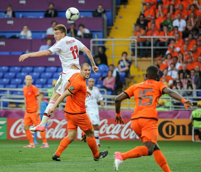 UEFA Euro 2012 match between Netherlands and Denmark that took place in Kharkiv. Final result was 0:1 (Krohn-Delhi)